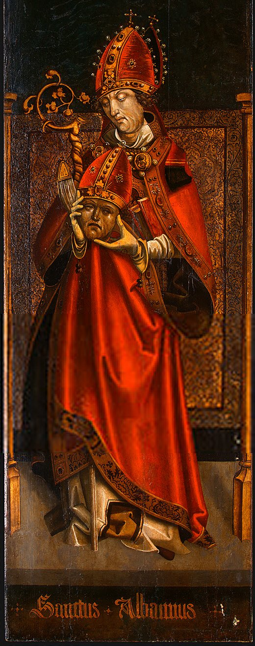 St. Alban of Mainz; reconstructed using an enlarged version of the whole painting and three detail shots